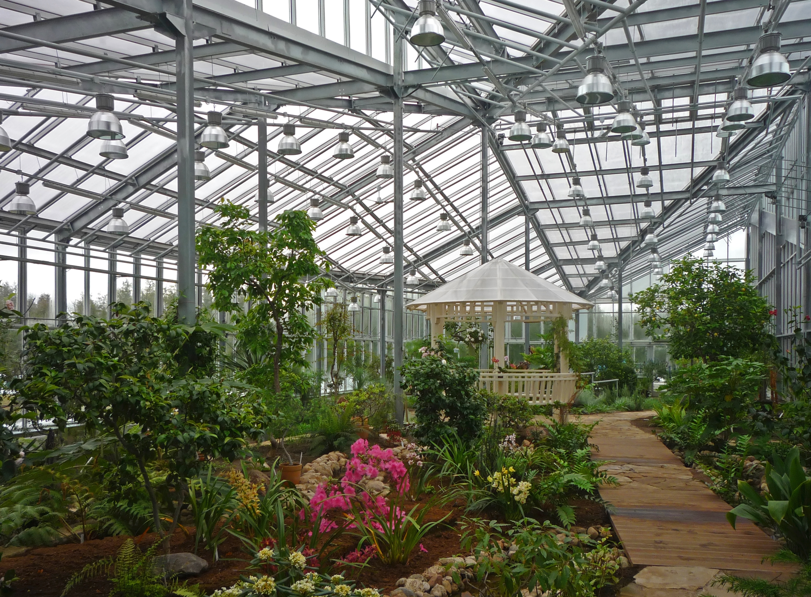 Renewed Tallinn Botanic Garden in Estonia